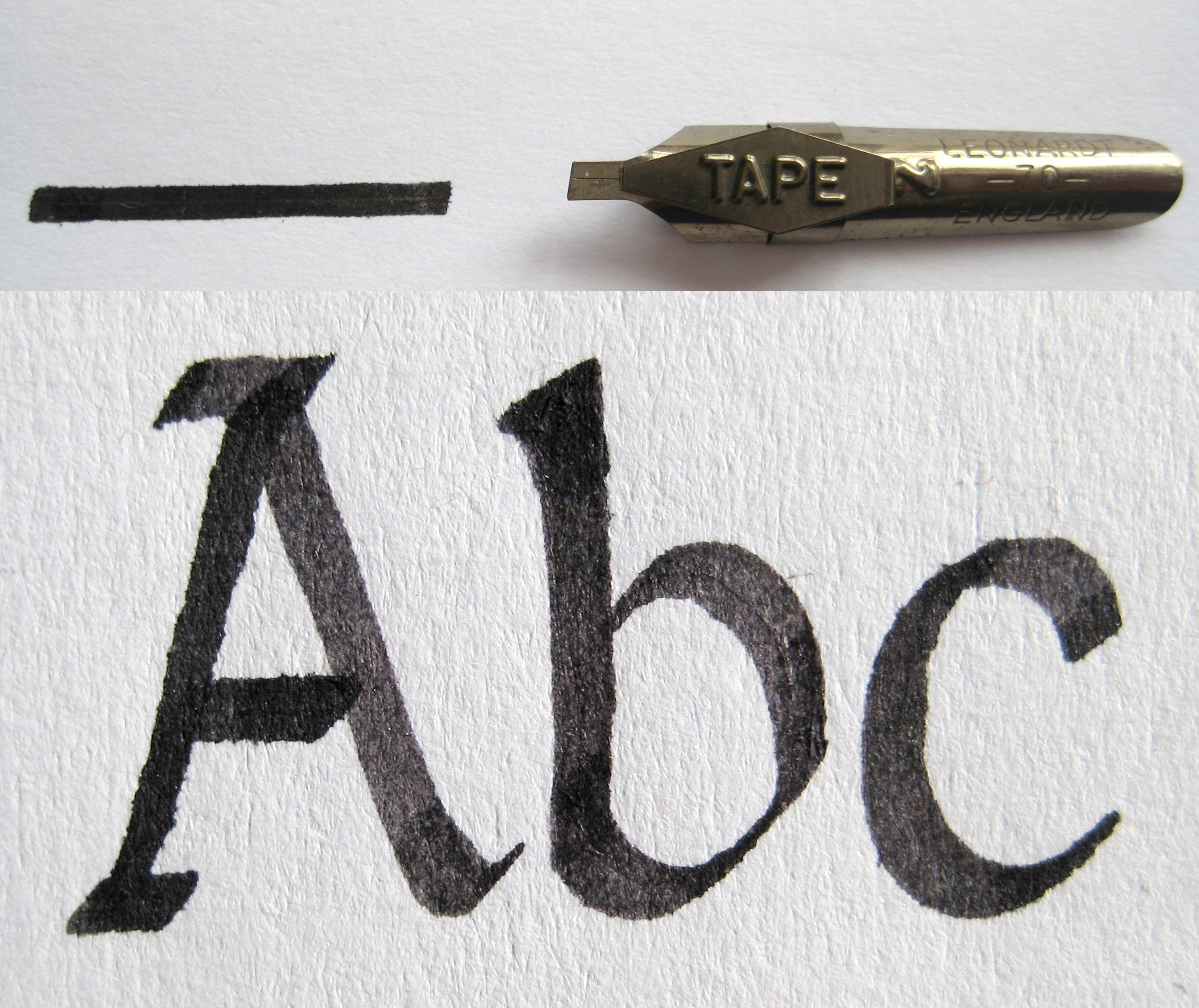 Round hand nib with a stroke and writing sample (Foundational by Edward Johnston)